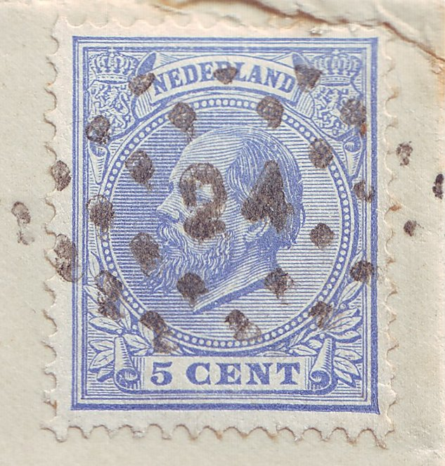 Dutch stamp with numeral cancellation 24 (Deventer). Part of a letter dated 13 August 1889.